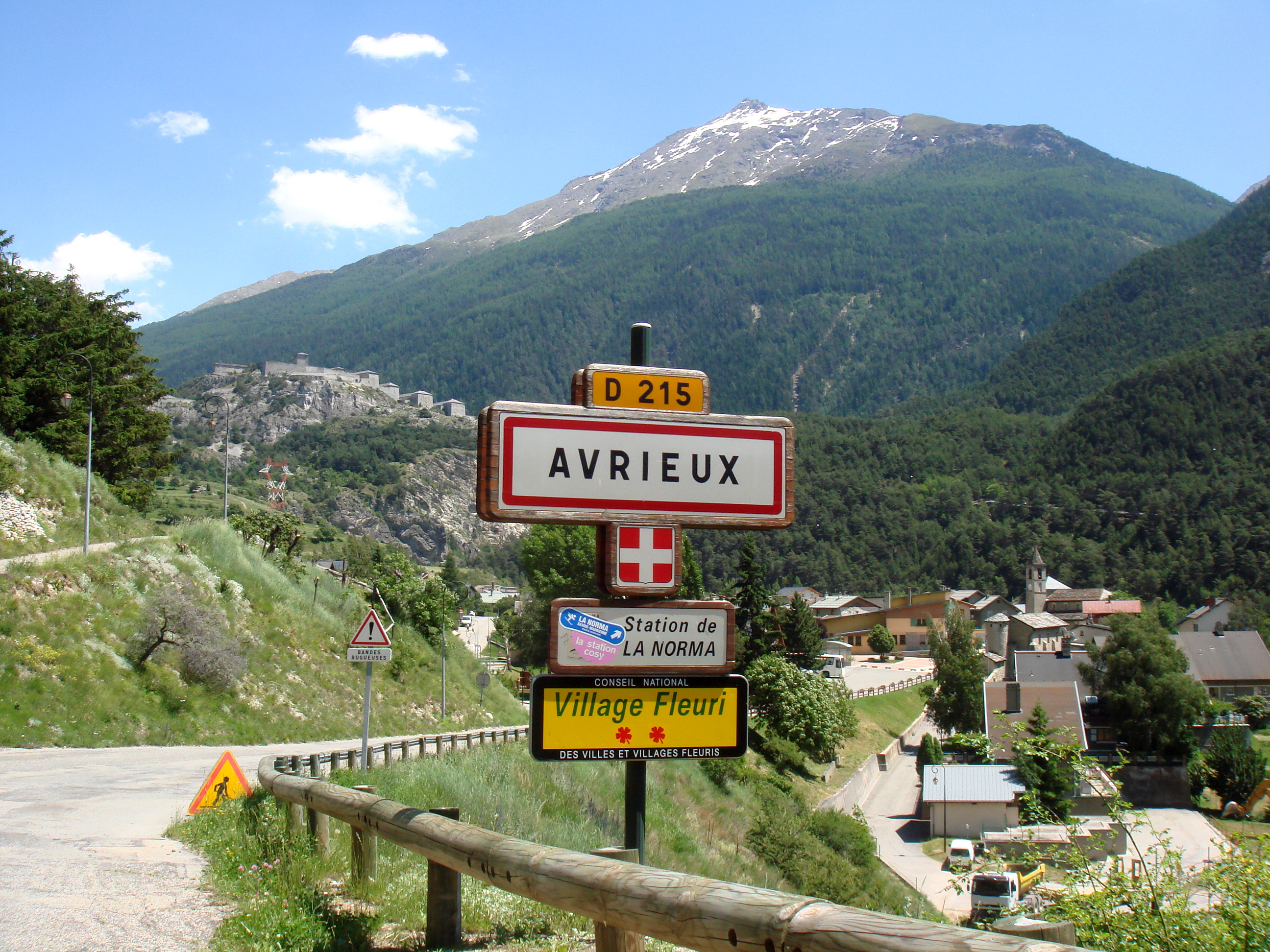 Name plate of Avrieux, a village in the Savoie department in the Rhône-Alpes region in southeastern France. In the background the Pointe de Longe Côte (3102 metres)